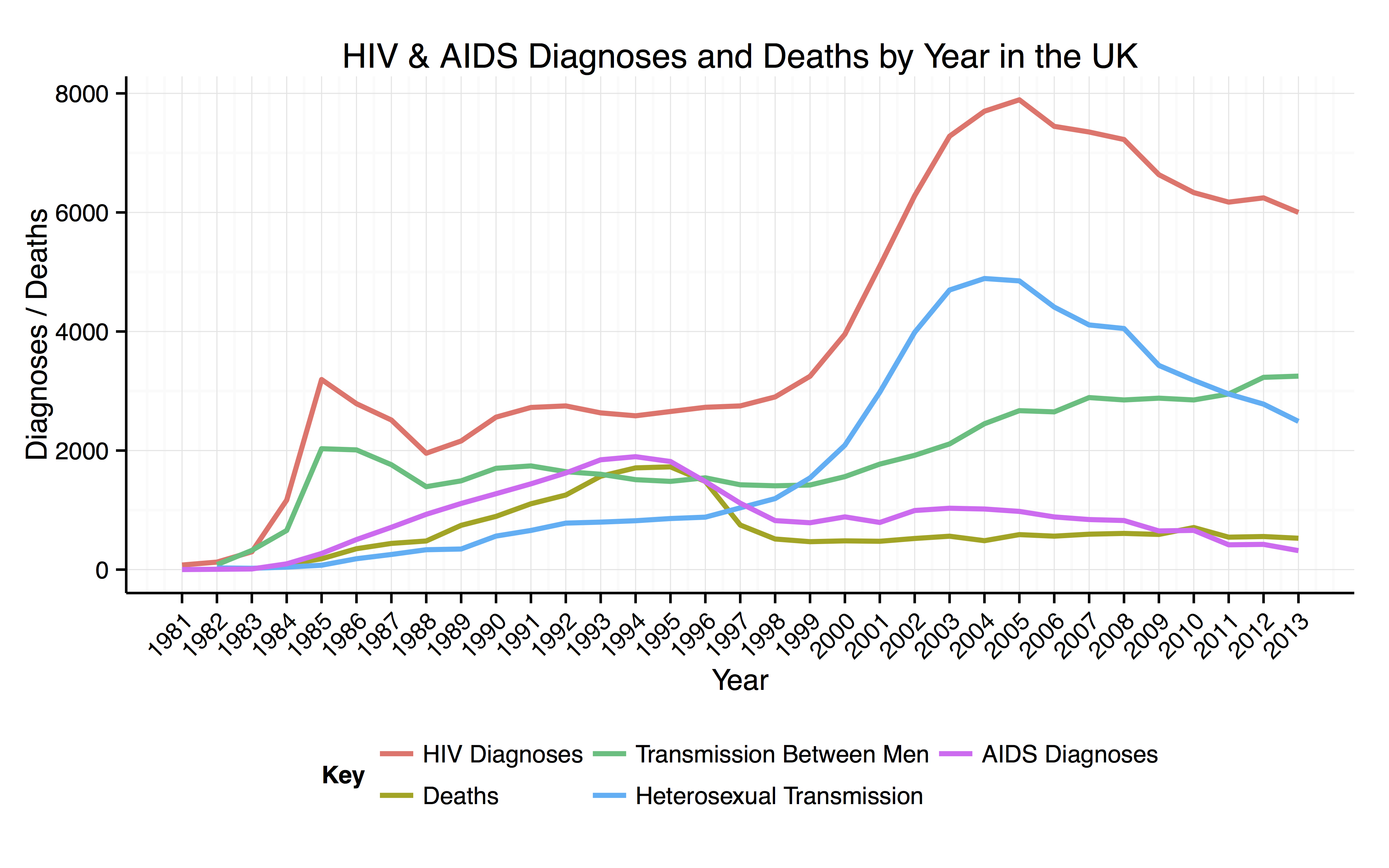 HIV & AIDS Diagnoses and Deaths by Year in the UK Data from